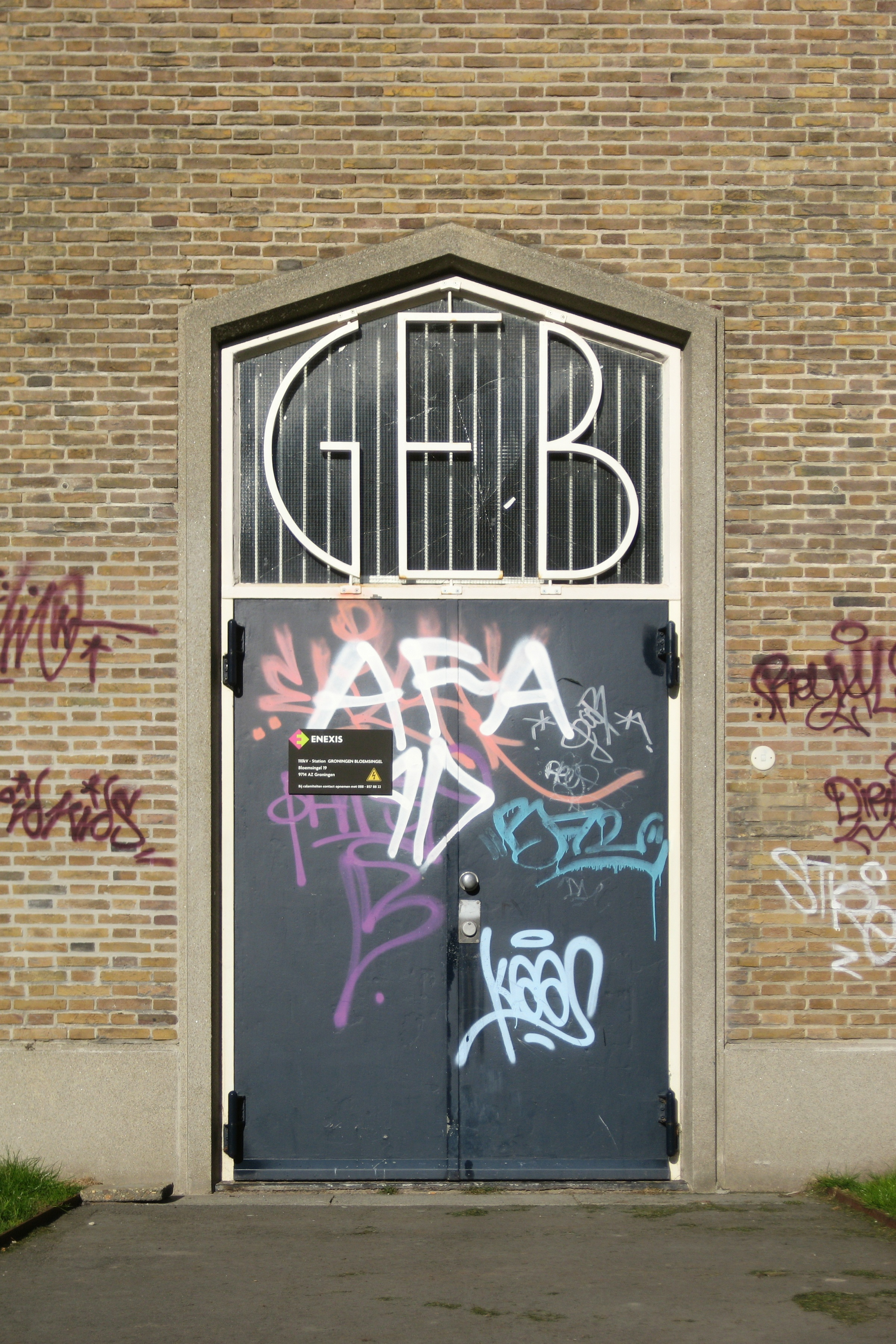 Door in an electricity distribution substation in the Dutch city of Groningen.